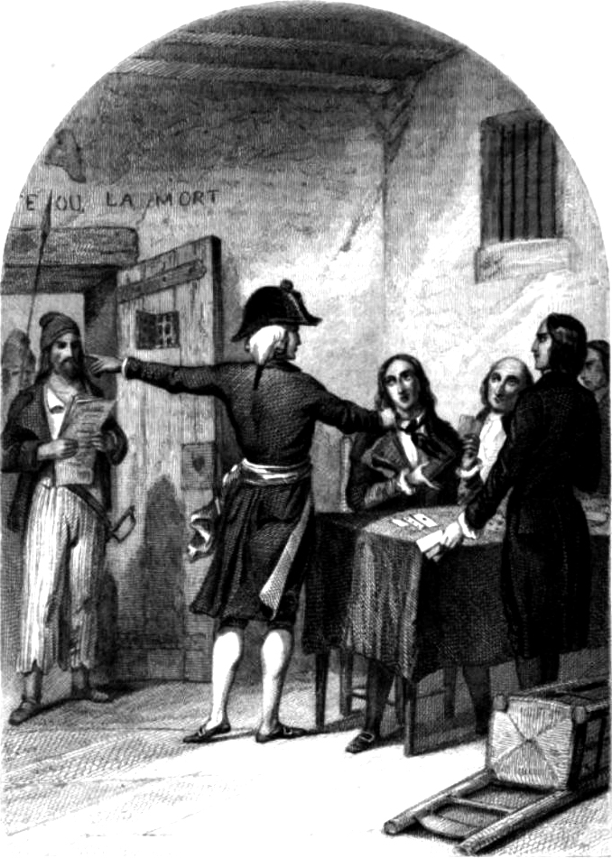 The Girondists's Held at La Force Prison